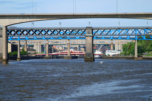 Tyne Bridges A clutter of bridges on the River Tyne. From foreground to background: New Redheugh Bridge, King Edward Bridge, Queen Elizabeth II Bridge, High Level Bridge, Swing Bridge, Tyne Bridge and (just visible) the Millennium Bridge.